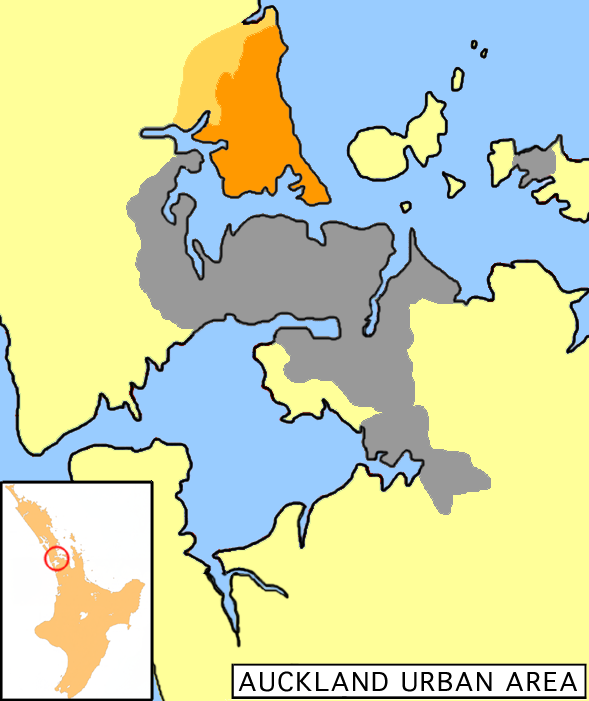 Uploaded from the English Wikipedia, uploaded there by user:Grutness Map of Auckland urban area, North Shore City highlighted (dark orange=populated; light orange=rural areas)